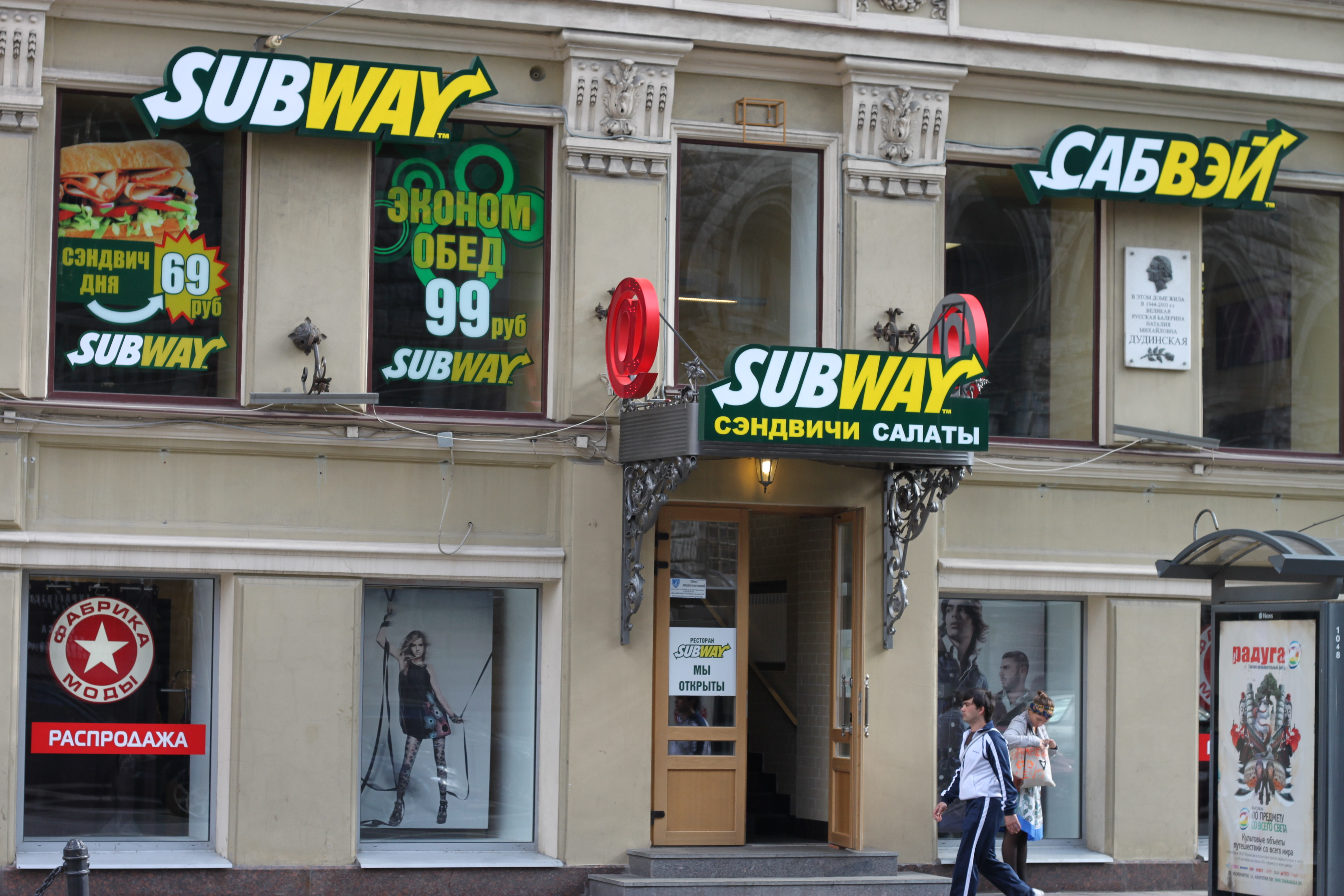 fast-food in Peterburg. Russia.